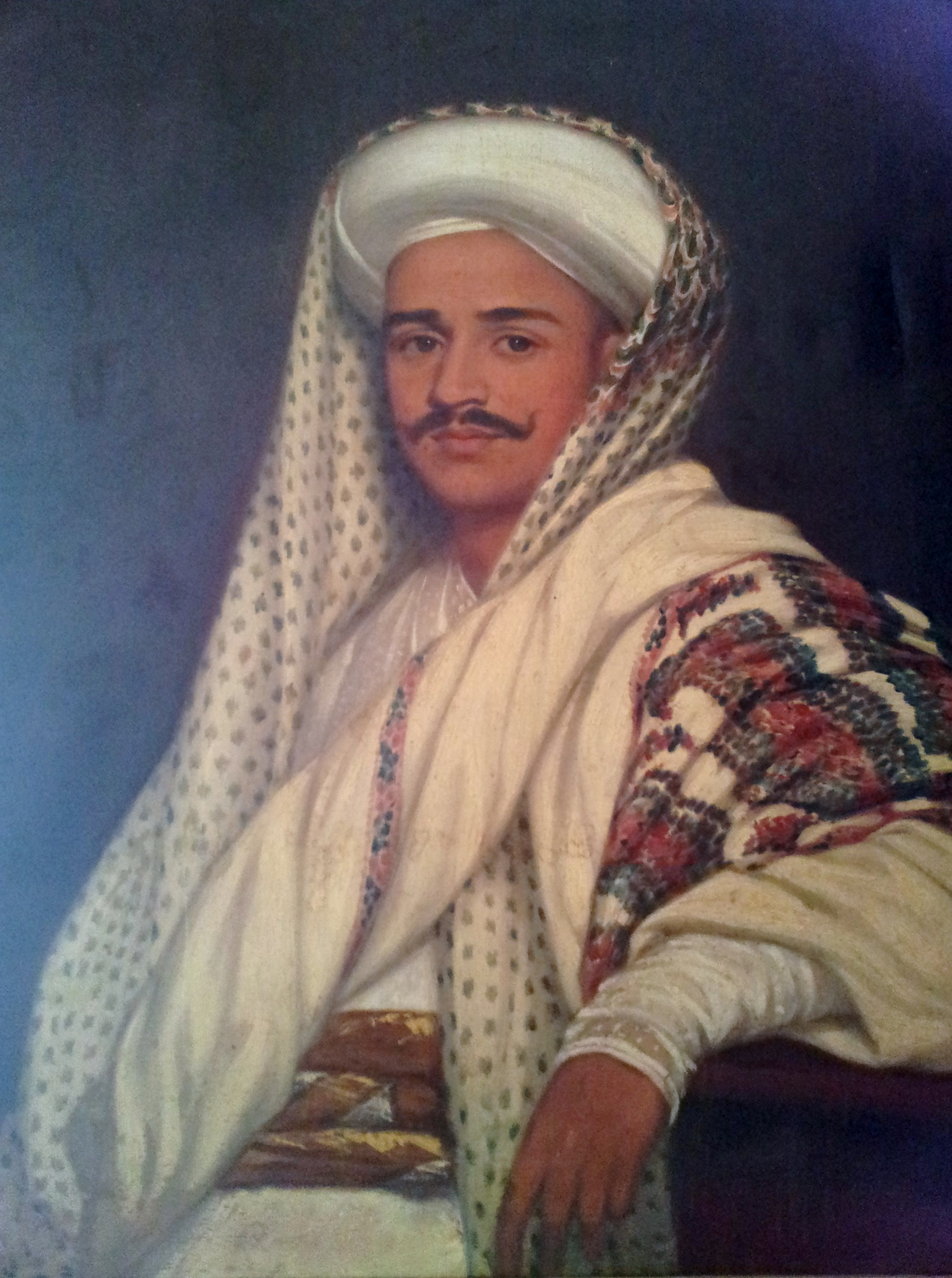 Portrait of Mukhtiyar Rangnath Paudel (1773 AD-??) in National Museum of Nepal, Chauni